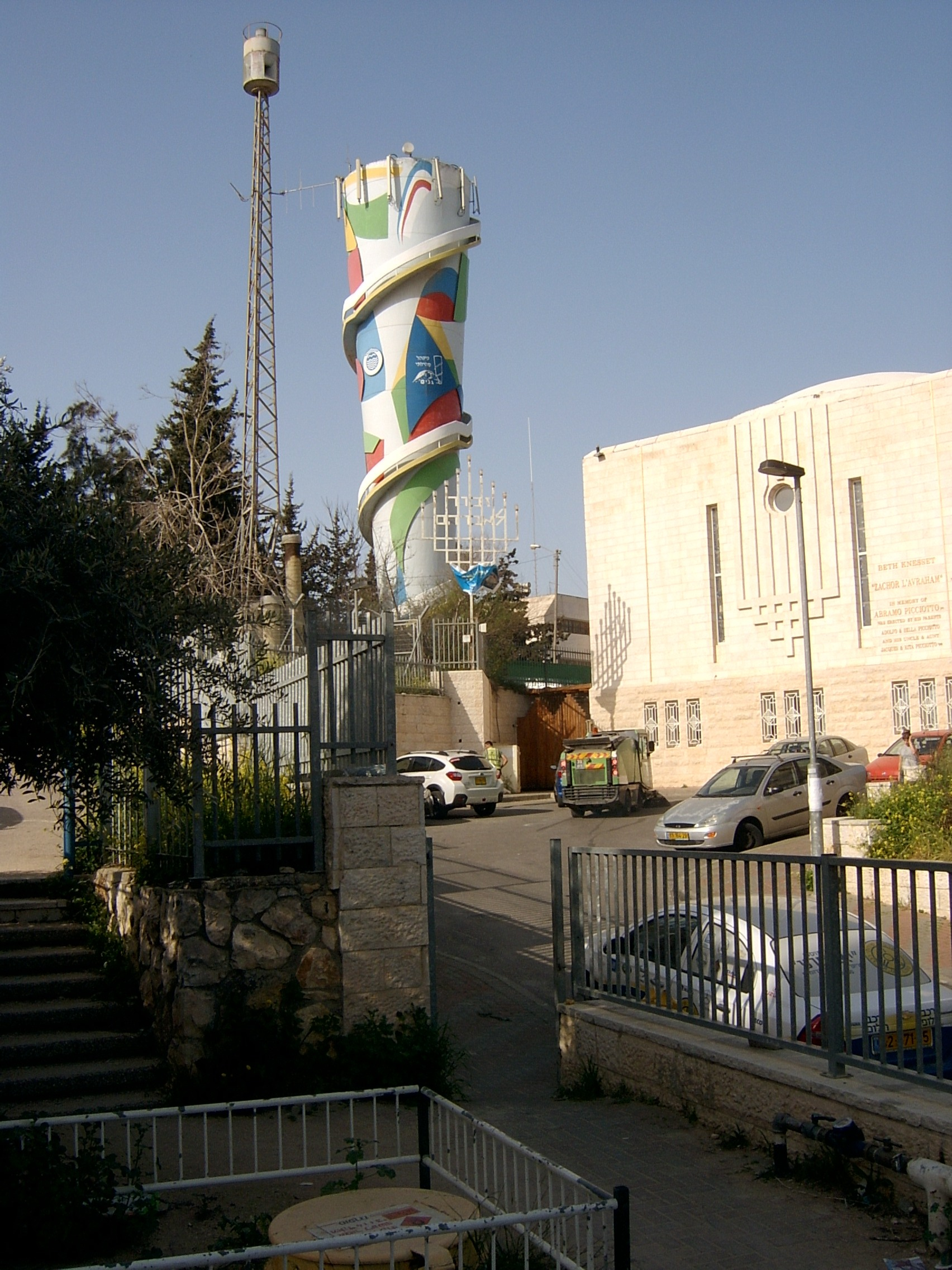 Synagogue Zachor l'Avraham and water tower, Kiryat Menahem, Jerusalem